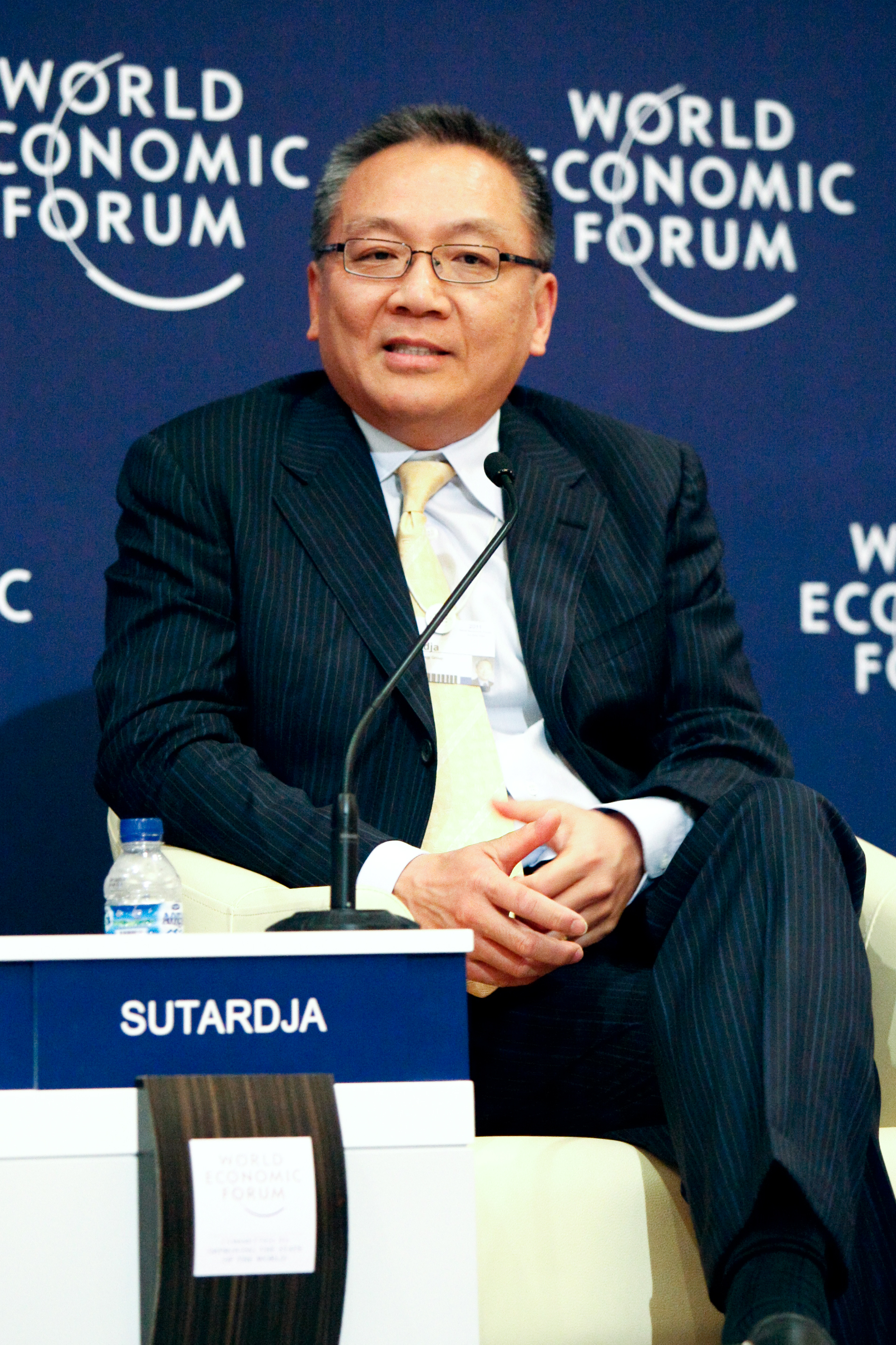 JAKARTA/INDONESIA, 13JUN11 - Sehat Sutardja, Chairman, President and Chief Executive Officer, Marvell Technology Group, USA; Co-Chair of the World Economic Forum on East Asia, captured during "Capitalizing on Transformative Technology and Innovation" at the World Economic Forum on East Asia in Jakarta, Indonesia, June 13, 2011. Copyright World Economic Forum ( by Sikarin Thanachaiary